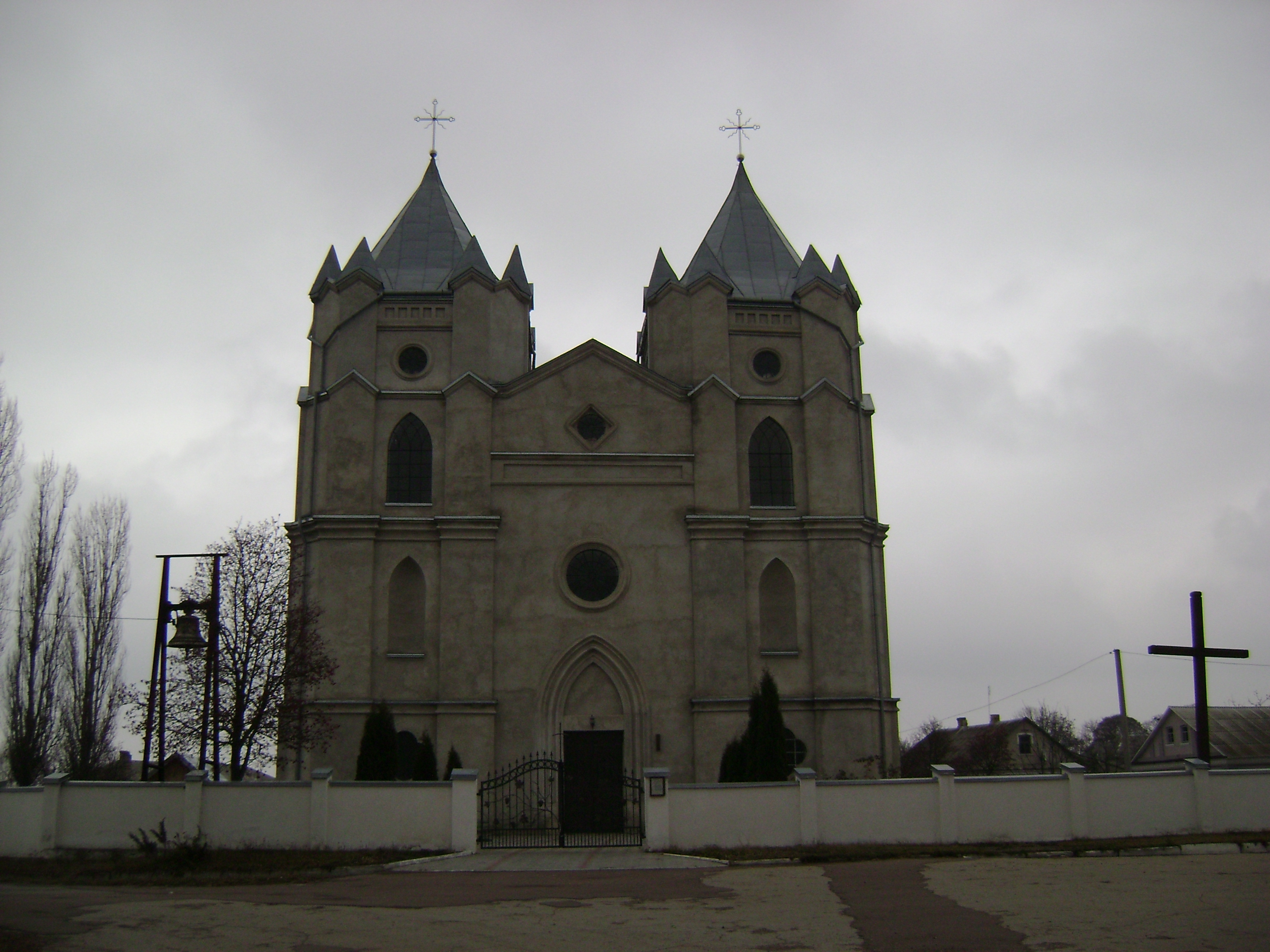 Church of the Immaculate Conception, Shumsk.